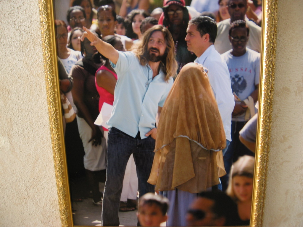 Les Cheveldayoff & Jim Caviezel at Holy Land Experience in June 2014.